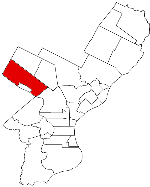 Map of Philadelphia County, Pennsylvania highlighting Roxborough Township prior to the Act of Consolidation, 1854